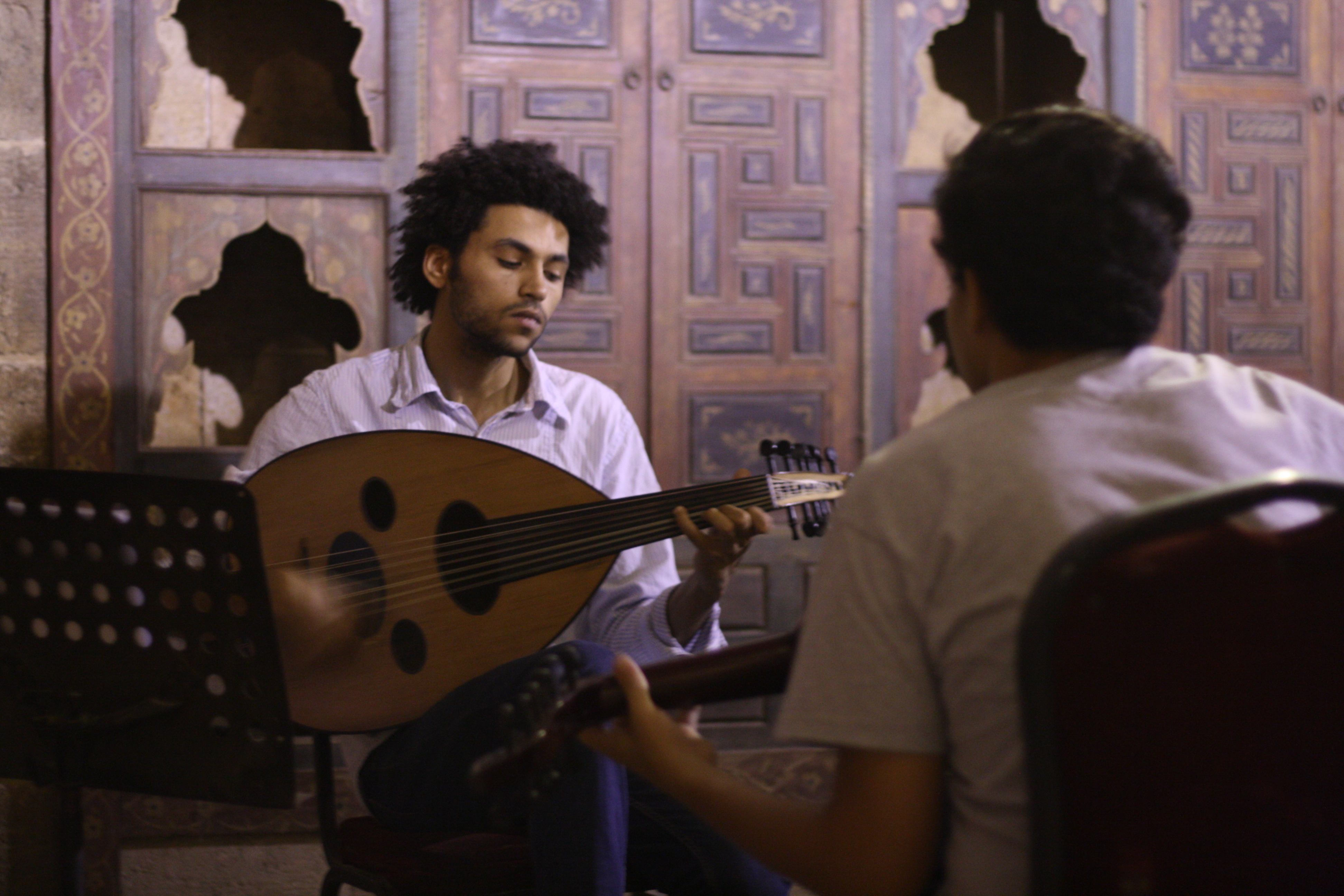 Oud is among Middle East and North Africa's most iconic musical instruments. Founded and run by the well renowned Oud player Nassir Shamma, Beit el-Oud is one of the region's leading Oud schools, which not only teaches the different variation for learning the instrument, but also fosters new approaches and techniques to playing Oud as well as designs for the instrument. This is an image from Egypt